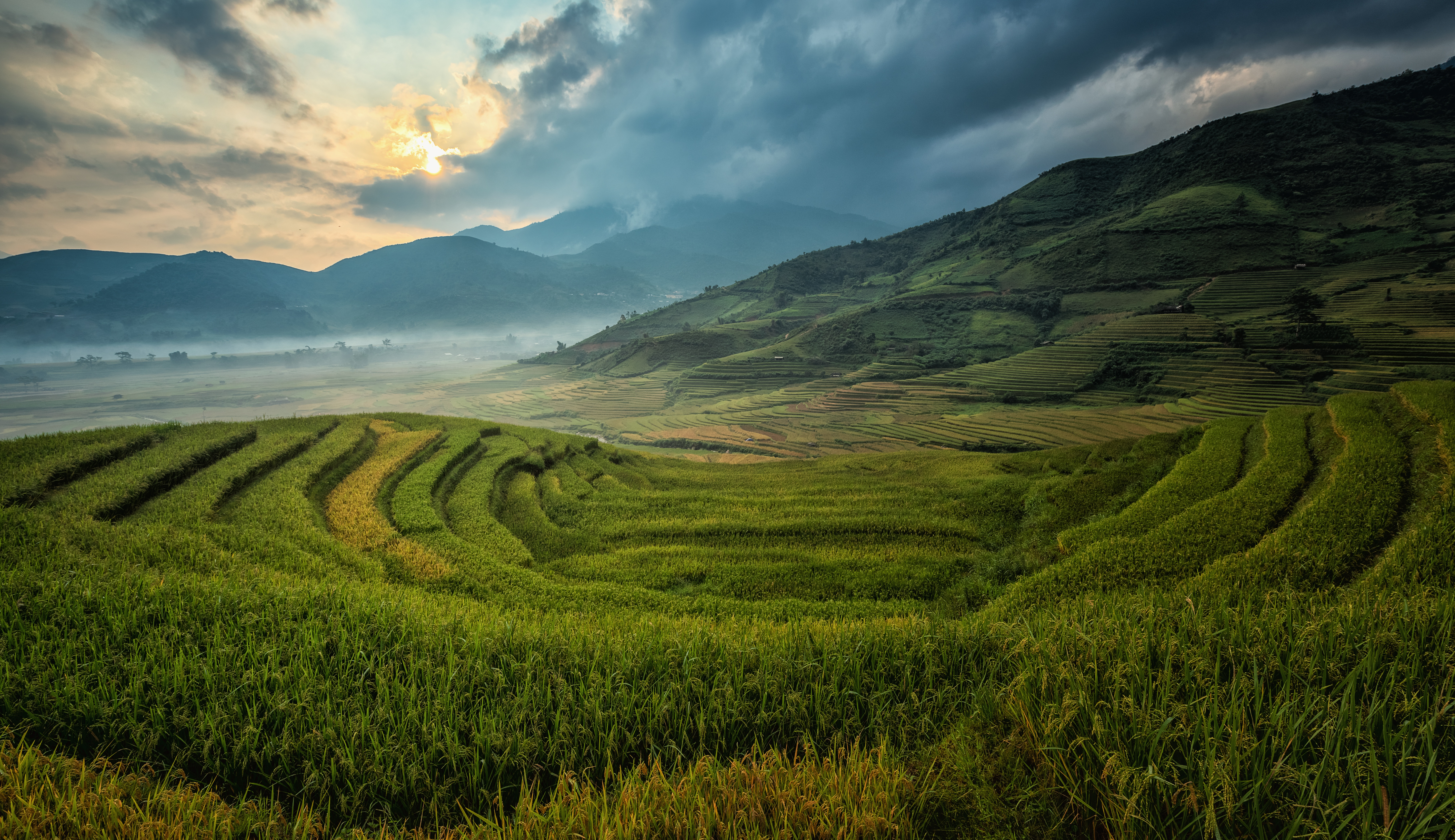 This picture shows the agriculture in China and Asia. It is a way of farming.